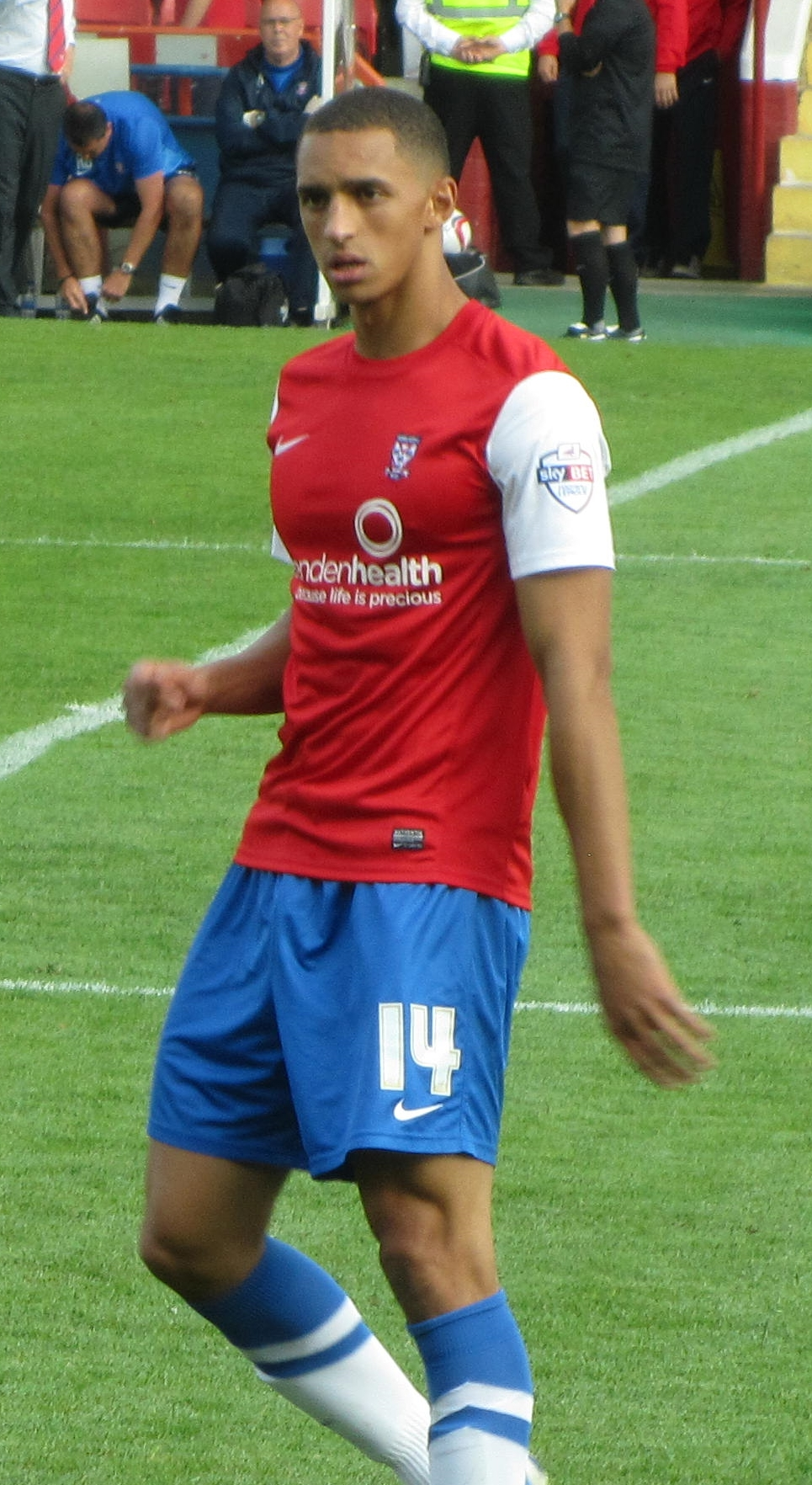 Lewis Montrose playing for York City against AFC Wimbledon at Bootham Crescent, York on 7 September 2013